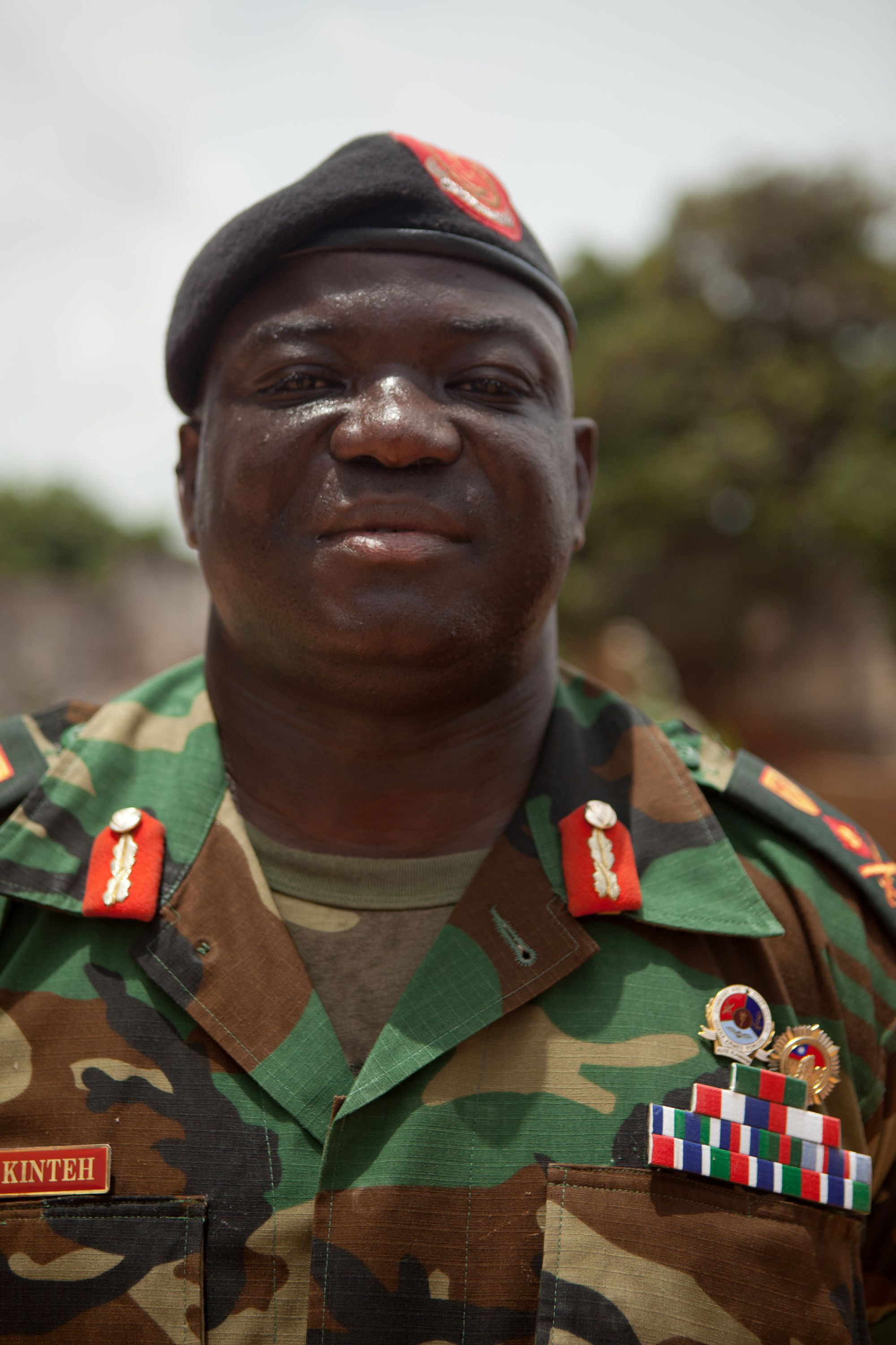 Gambian Minister of Defense Lt. Gen. Masanneh Kinteh poses for a portrait after an interview at the Africa Endeavor exercise site at Falajar Barracks, The Gambia, July 15. "The future of Afria lies in communication and cooperation," said Kinteh. "Africa's future lies in any effort to improve that." (U.S. Army photo by Sgt. Daniel T. West 358th, PAD)